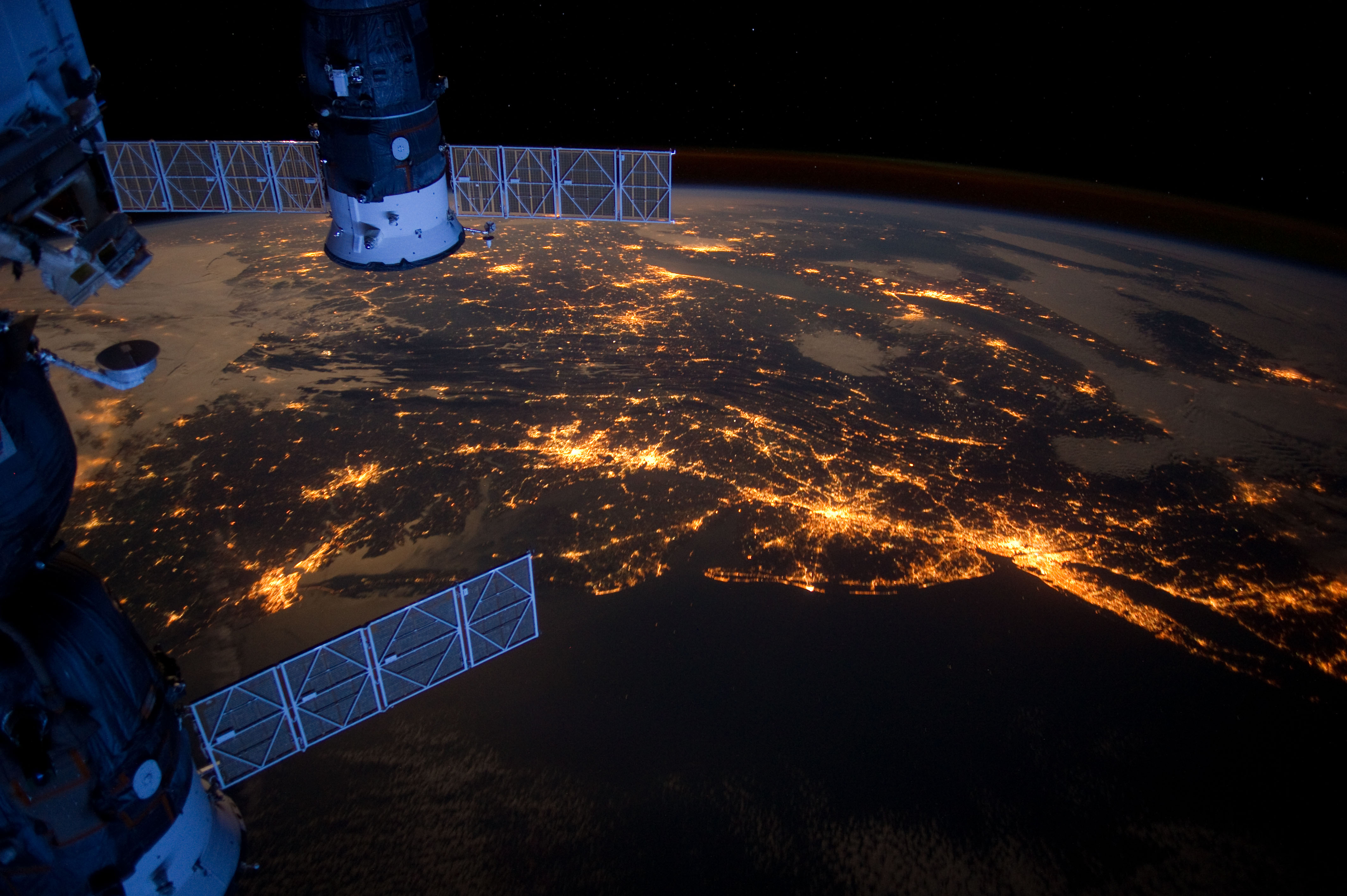 One of the Expedition 30 crew members aboard the International Space Station took this nighttime photograph of much of the eastern (Atlantic) coast of the United States. Large metropolitan areas and other easily recognizable sites from the Virginia/Maryland/Washington, D.C. area spanning almost to Rhode Island are visible in the scene. Boston is just out of frame at right. Long Island and the Greater Metropolitan area of New York City are visible in the lower right quadrant. Large cities in Pennsylvania (Philadelphia and Pittsburgh) are near center. Parts of two Russian vehicles parked at the orbital outpost are seen in left foreground.